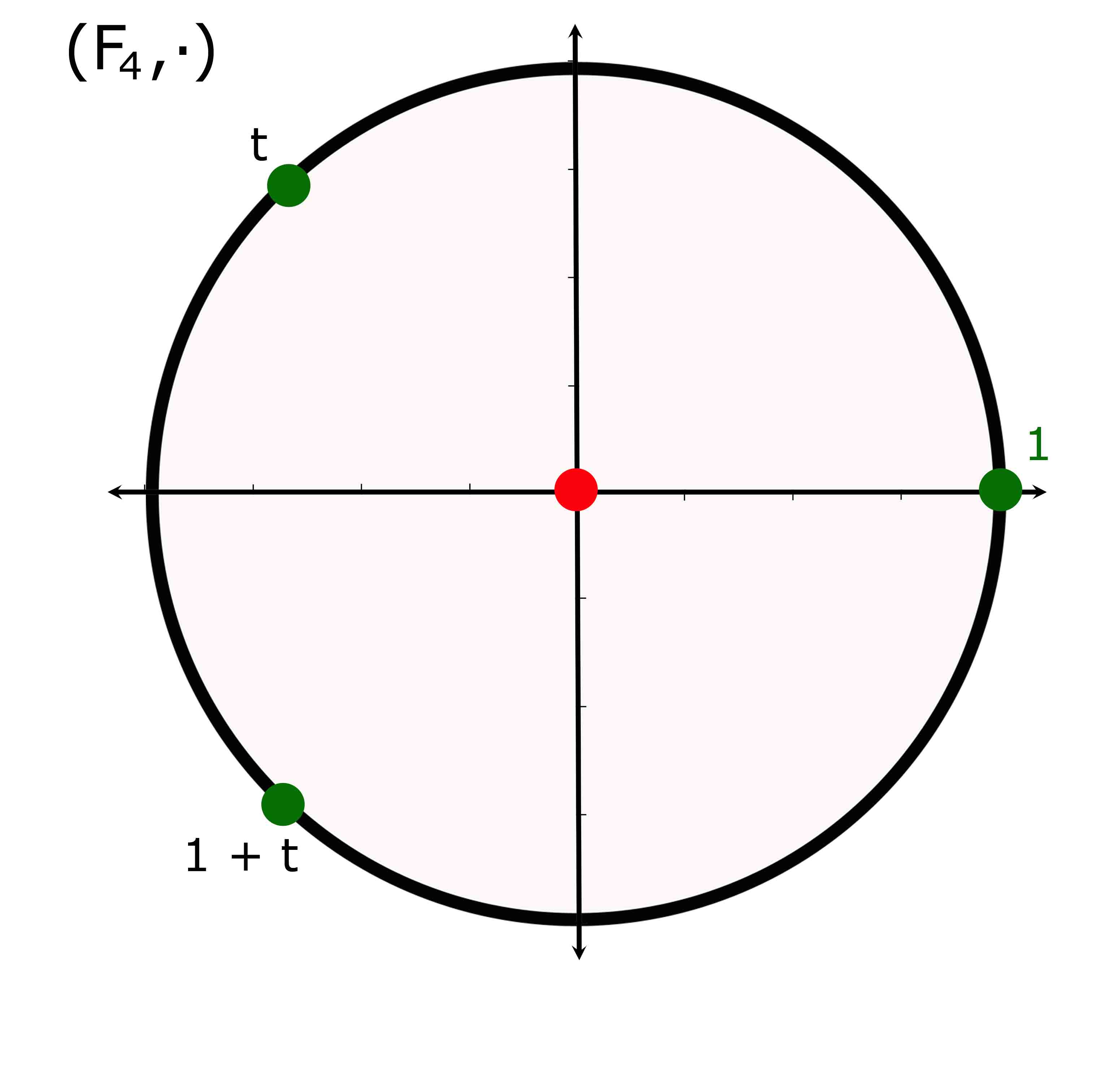 Schema to illustrate the cyclic group of a multiplicative finite field (Wikipedia France)